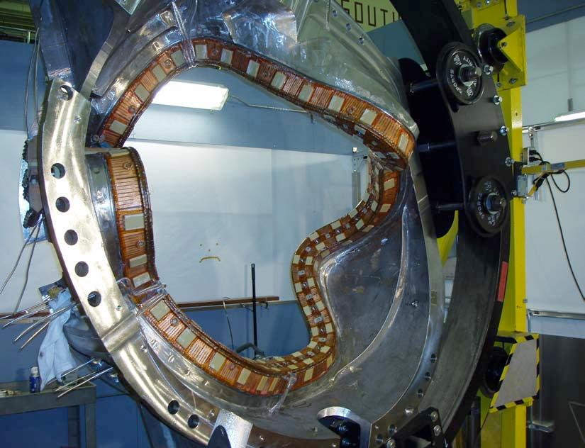 Modular coil of the National Compact Stellarator Experiment (NCSX) in process.